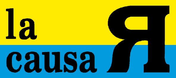 Radical Cause logo